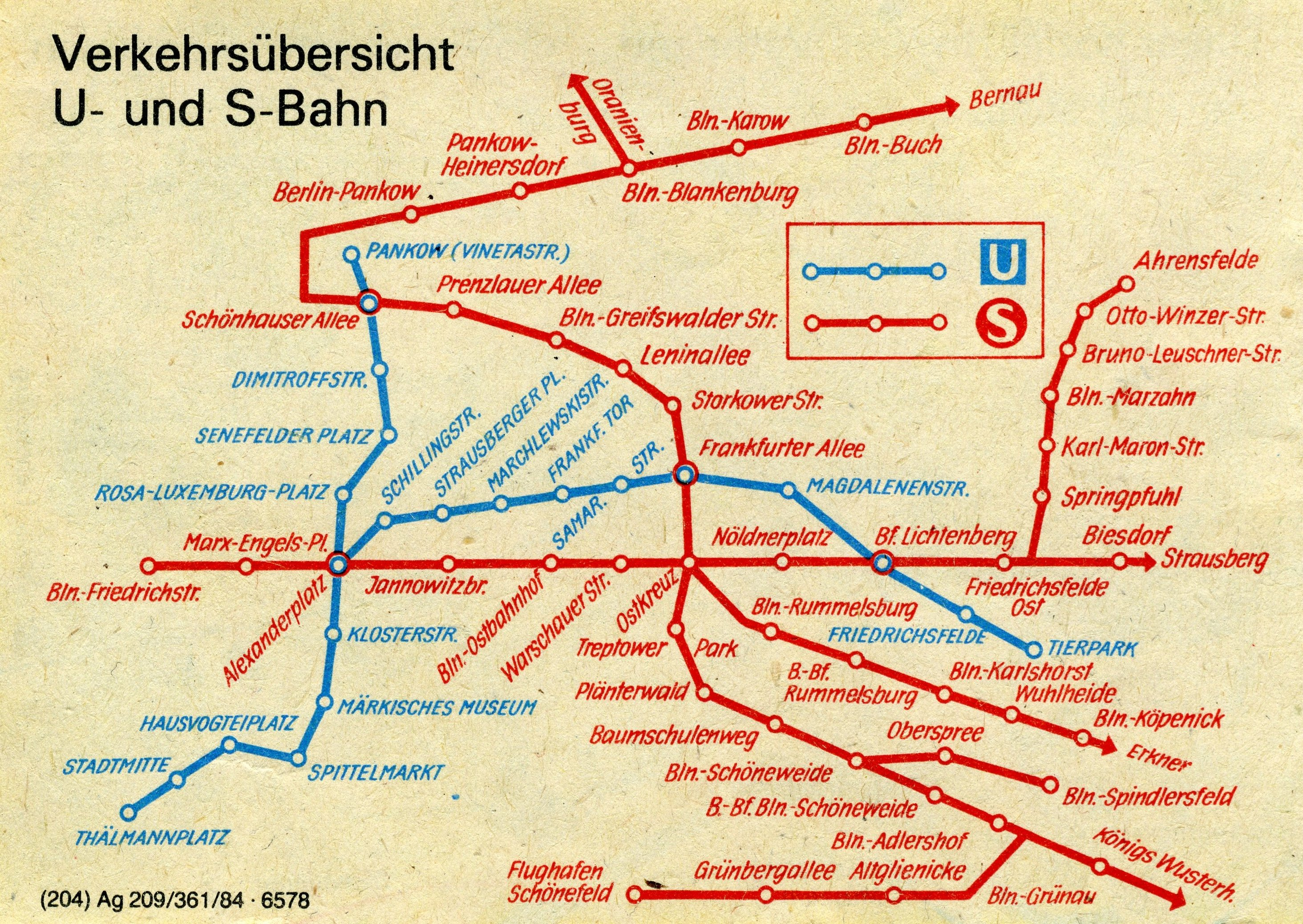 Overview of public transport by subway and S-Bahn in East Berlin 1984. Printed for delegates of the National Youth Festival of the Free German Youth on June 1st, 1984.